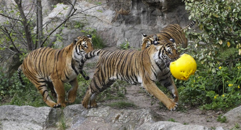 Tigers in the Berlin Zoo